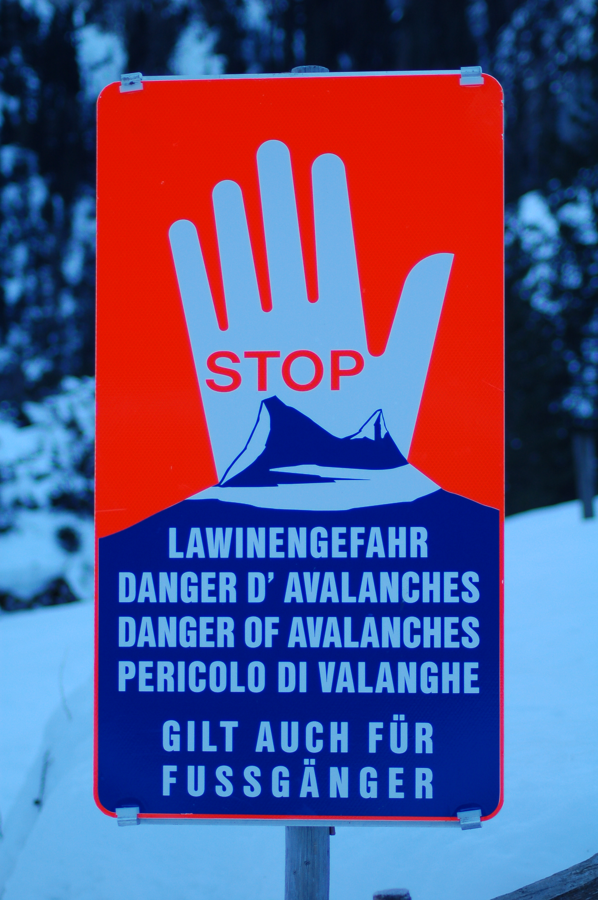 Sign: Danger of Avalanches (Austria)